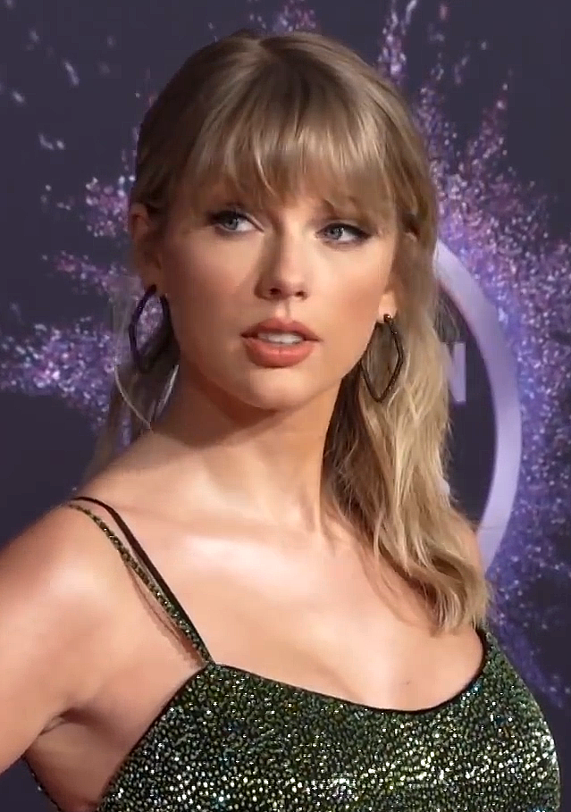 Taylor Swift at the 2019 American Music Awards